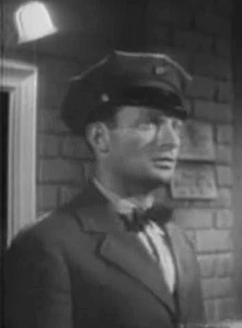 Joe Mantell in Port of New York (cropped screenshot)